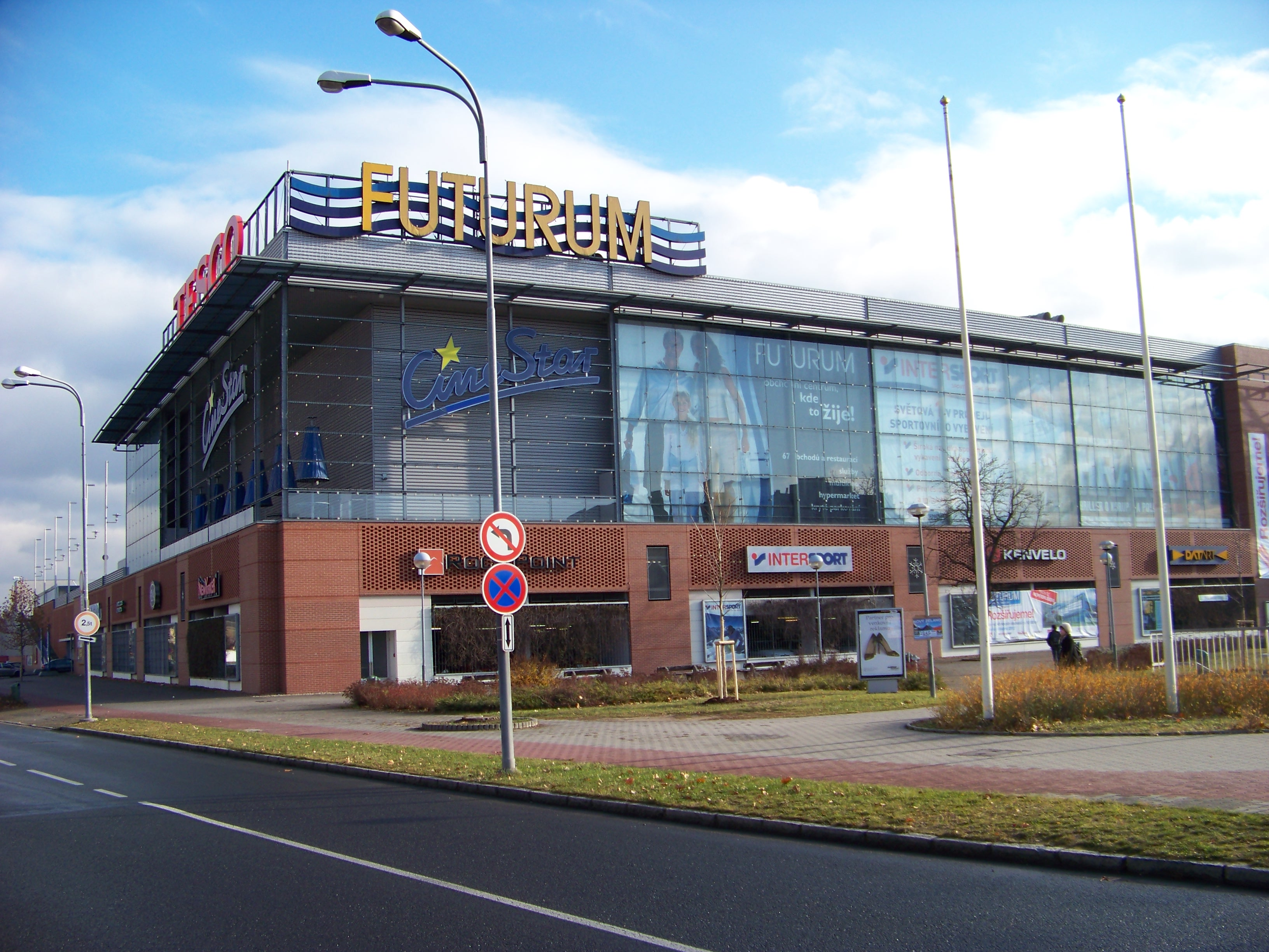 Hradec Králové-Nový Hradec Králové, Hradec Králové District, Hradec Králové Region, the Czech Republic. Mrštíkova street, Futurum shopping centre.